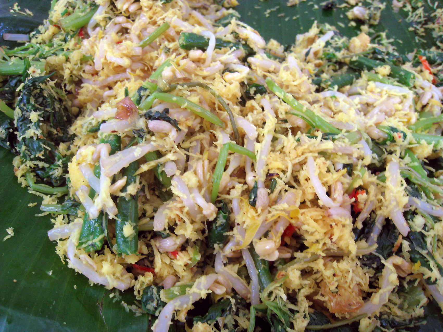 Urap or Urab is Javanese vegetable salad in spicy shredded coconut dressing. Indonesia